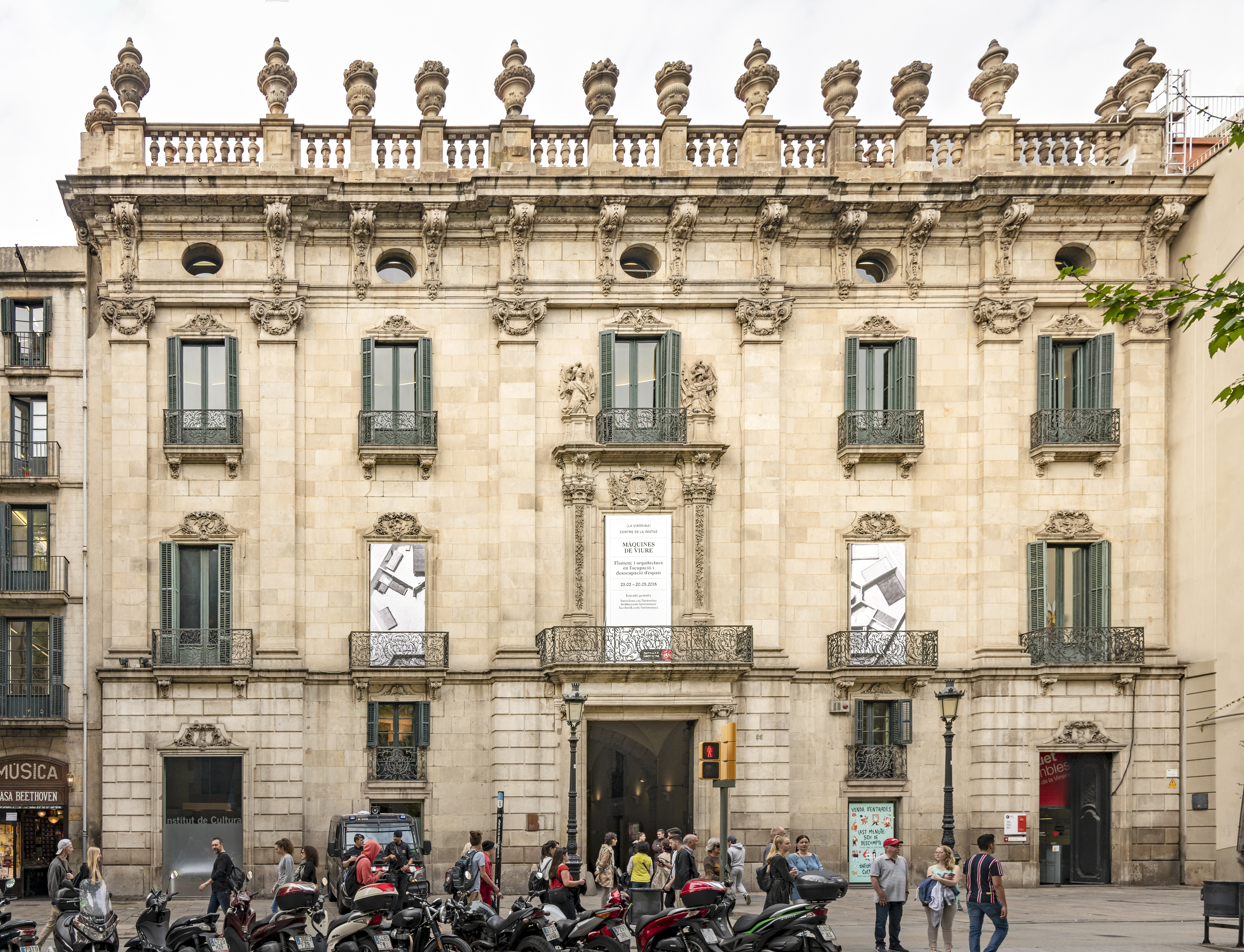 Palau de la Virreina - facade, on Les Rambles in Barcelona.